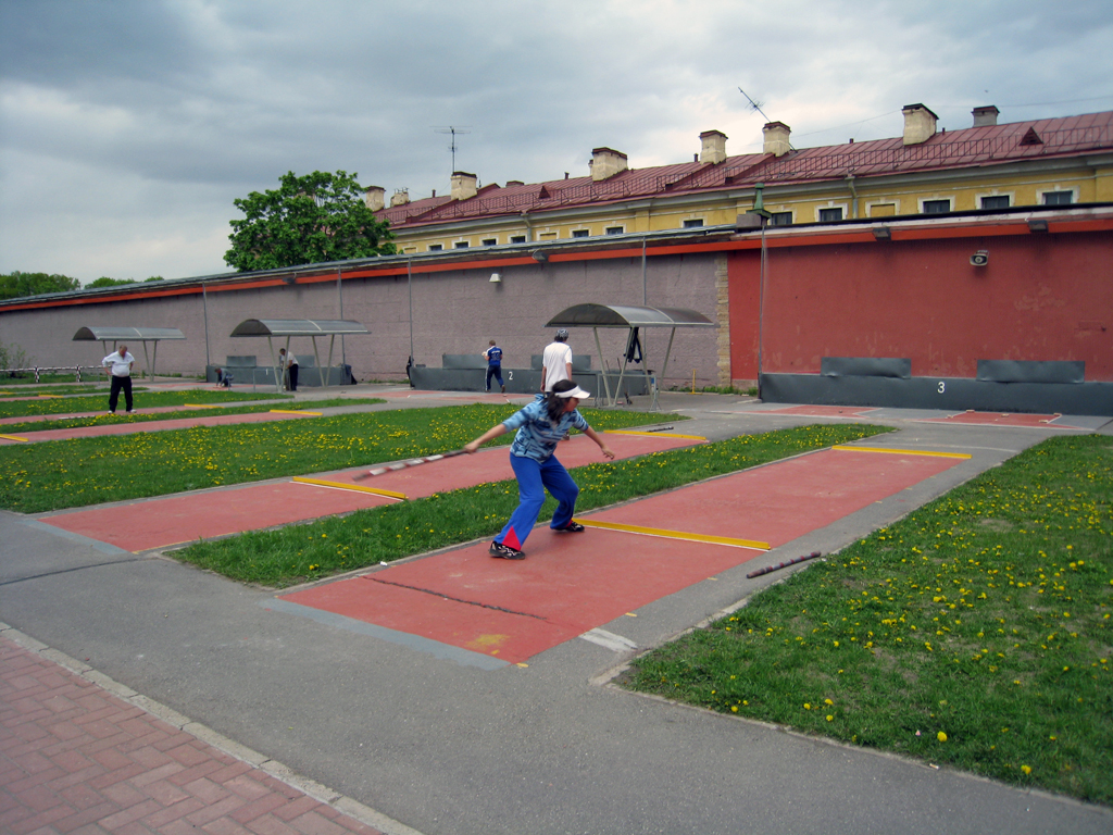 Gorodki site at St. Petersburg, Russia